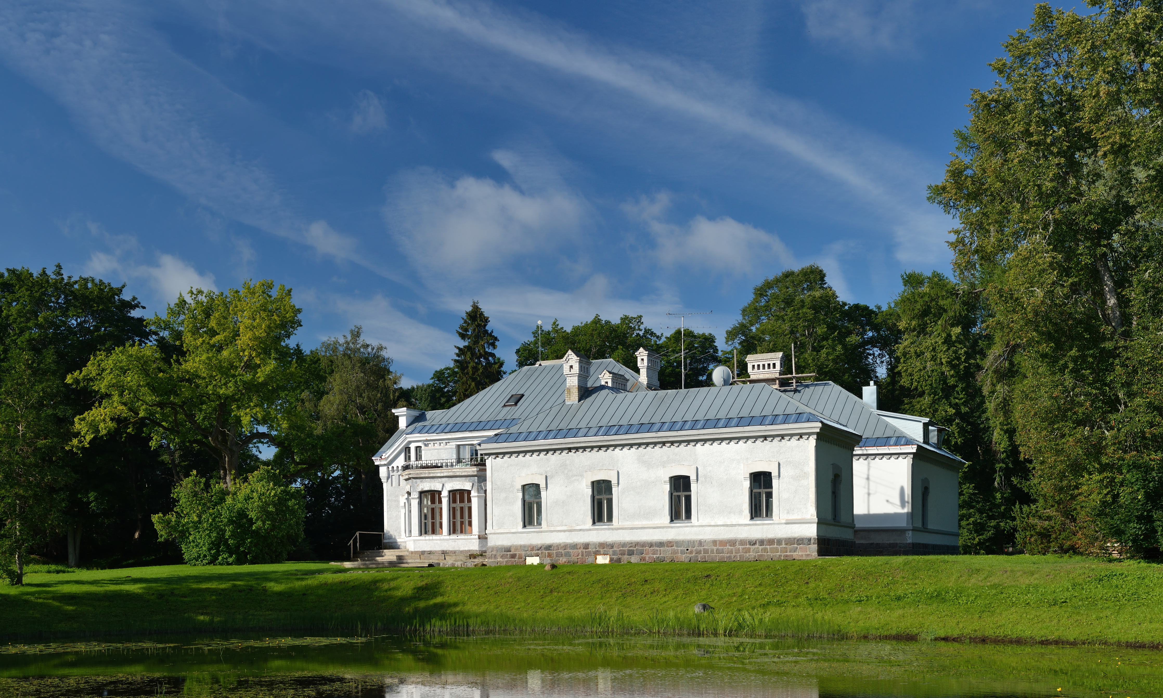 Kiviloo manor main building